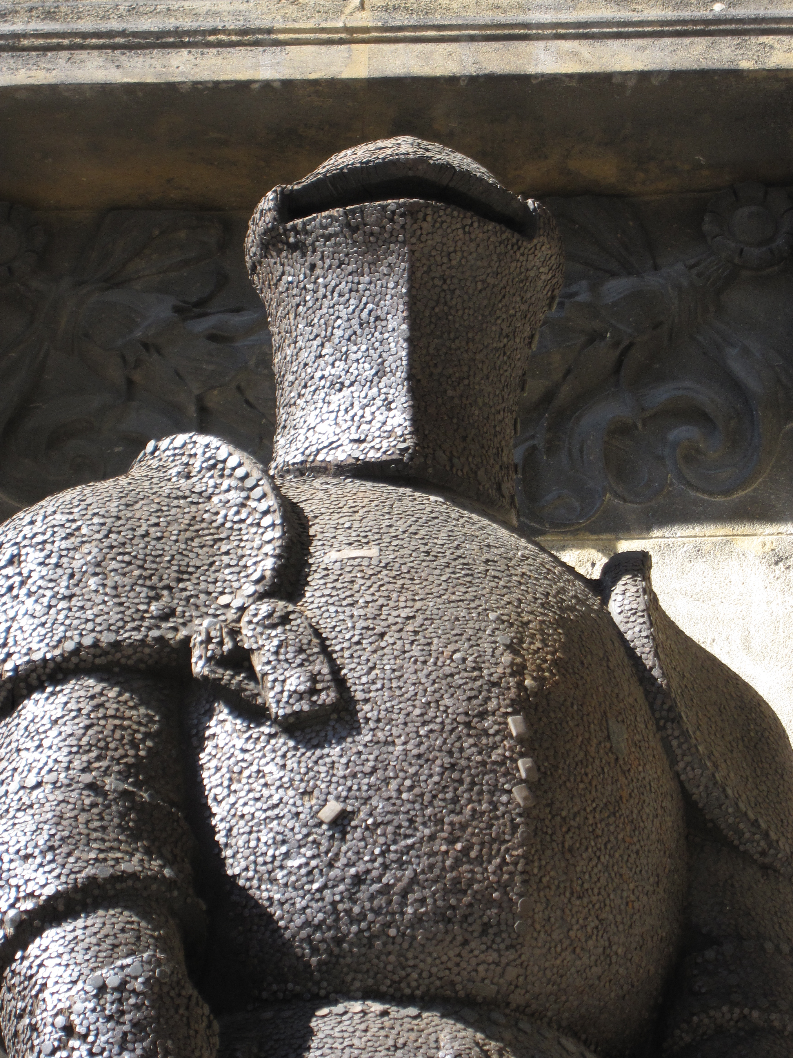 Old Wehrmann in Eisen statue in Vienna, next to the city hall.